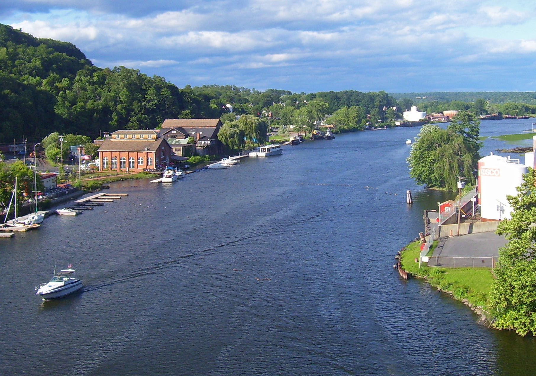 Rondout Creek from John T. Loughran Bridge (US 9W}, looking toward mouth at nearby Hudson River, Kingston, NY, USA